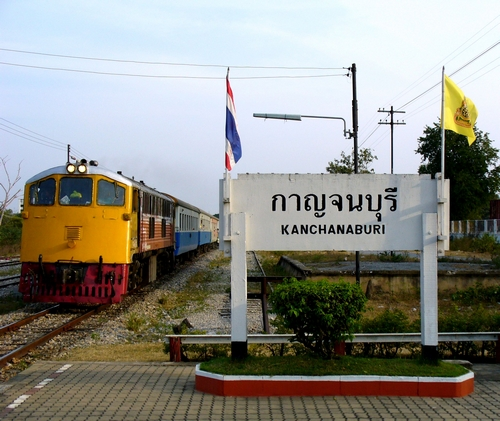 Train Station, Kanchanaburi, Thailand